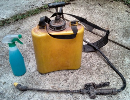 Sprayers for agricultural and garden